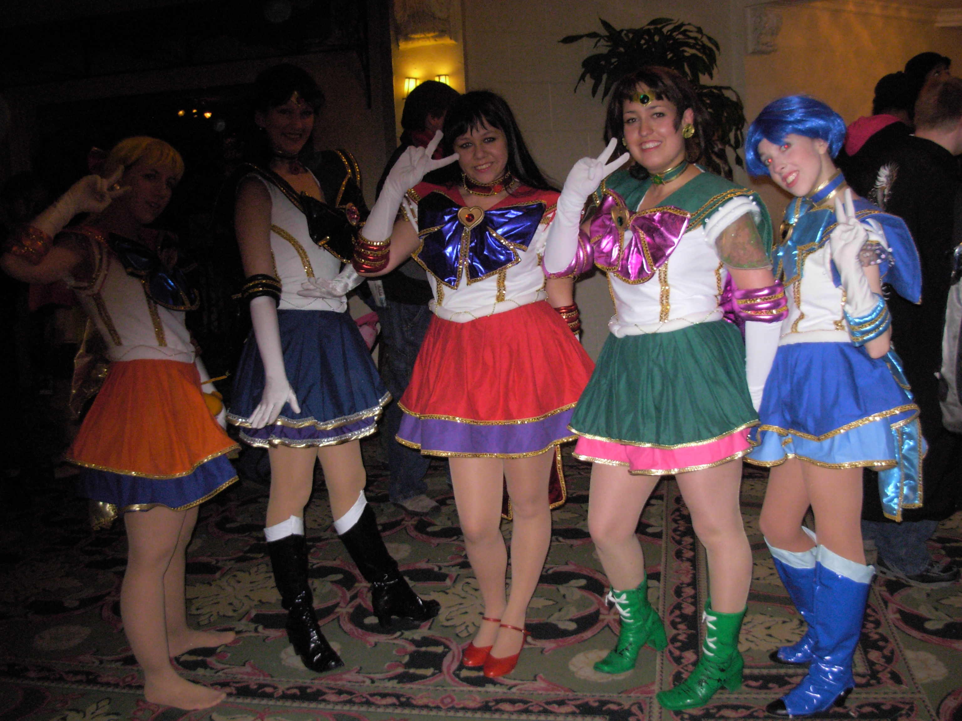 Cosplayers at Katsucon - Washington, DC (USA)